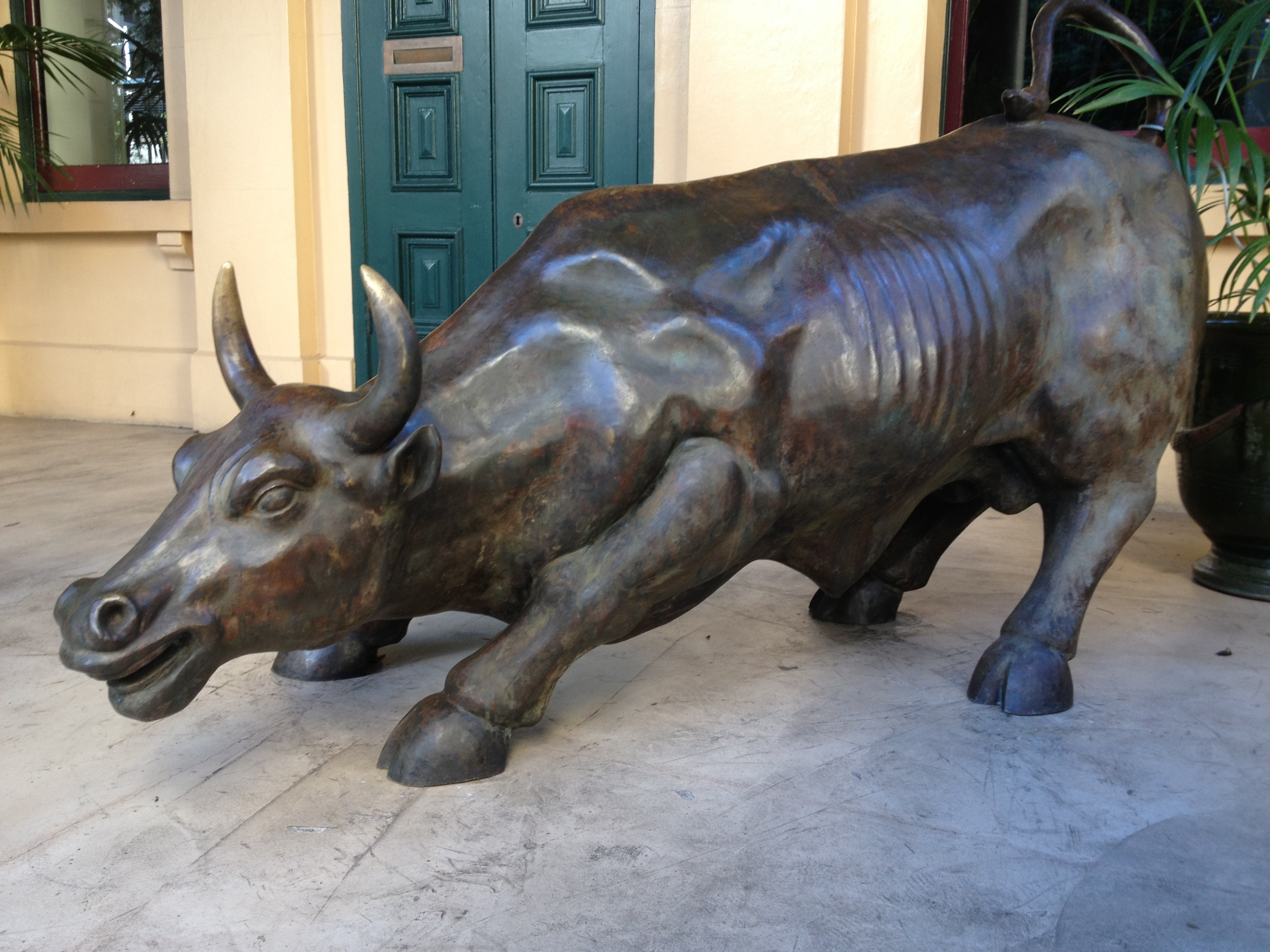 Angus, bull sculpture outside The Port Office building, Edward Street, Brisbane